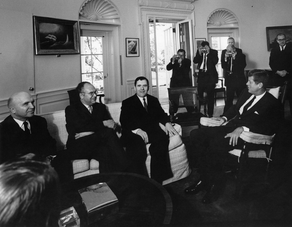 President Kennedy meets with Soviet Foreign Minister Andrei Gromyko in the Oval Office. The President knows but does not reveal that he is now aware of the missile build-up.